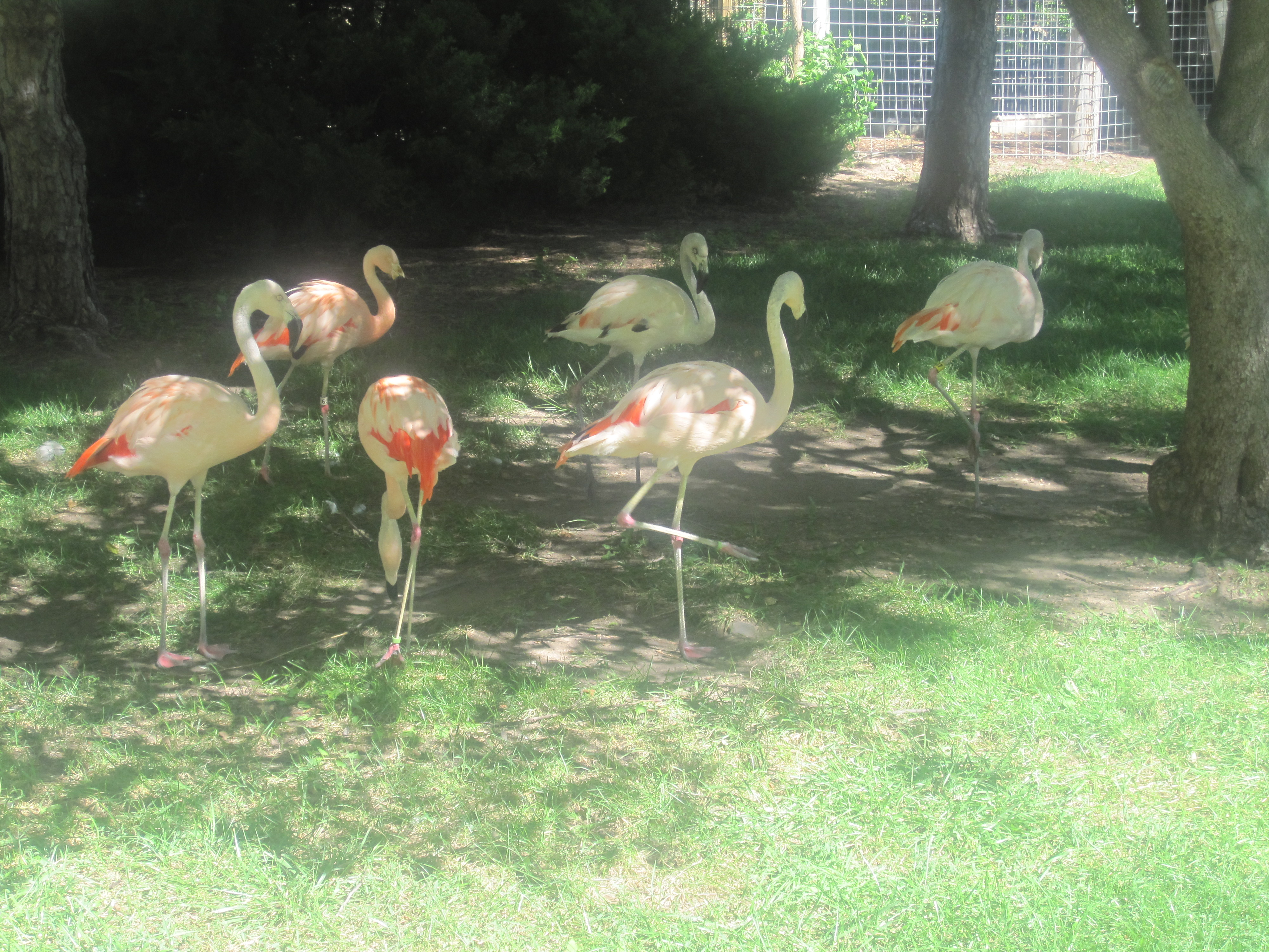 I took photo with Canon camera in Garden City, KS.